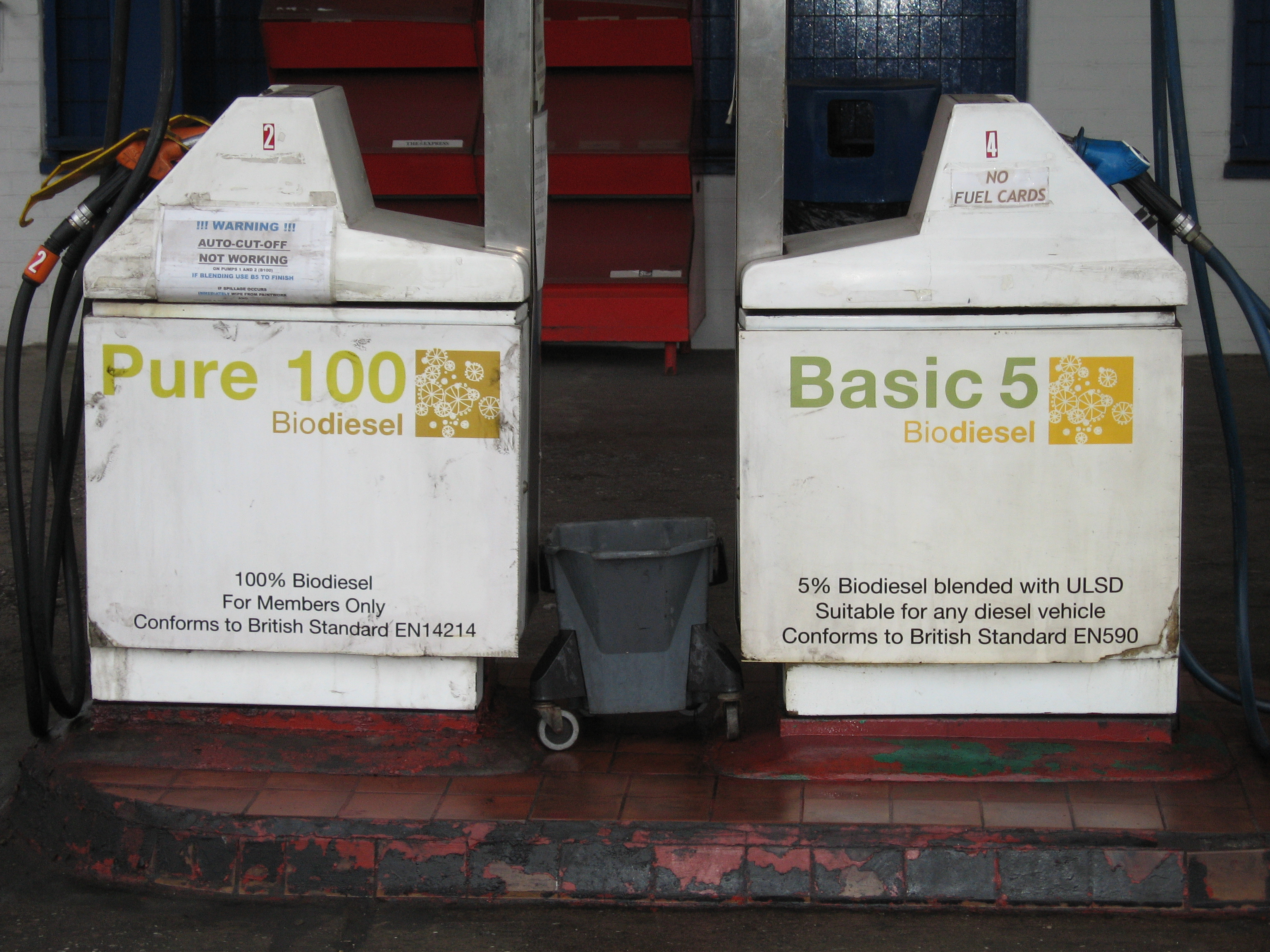 Biofuel pumps on Fairfield street.